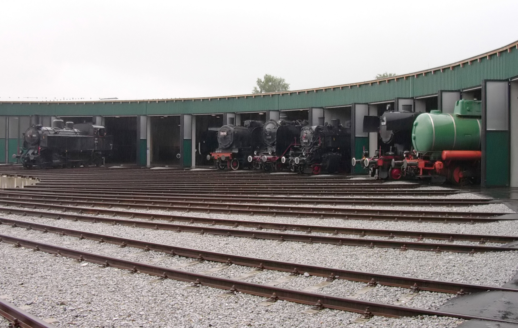 German Ringloksschuppen in Ampfelwang (OÖ) - locomotive depot roundhouse in Ampfelwang (Austria)